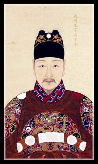 Emperor Guangzong of Ming Dynasty, China.Depicted person: Taichang Emperor – emperor of the Ming Dynasty